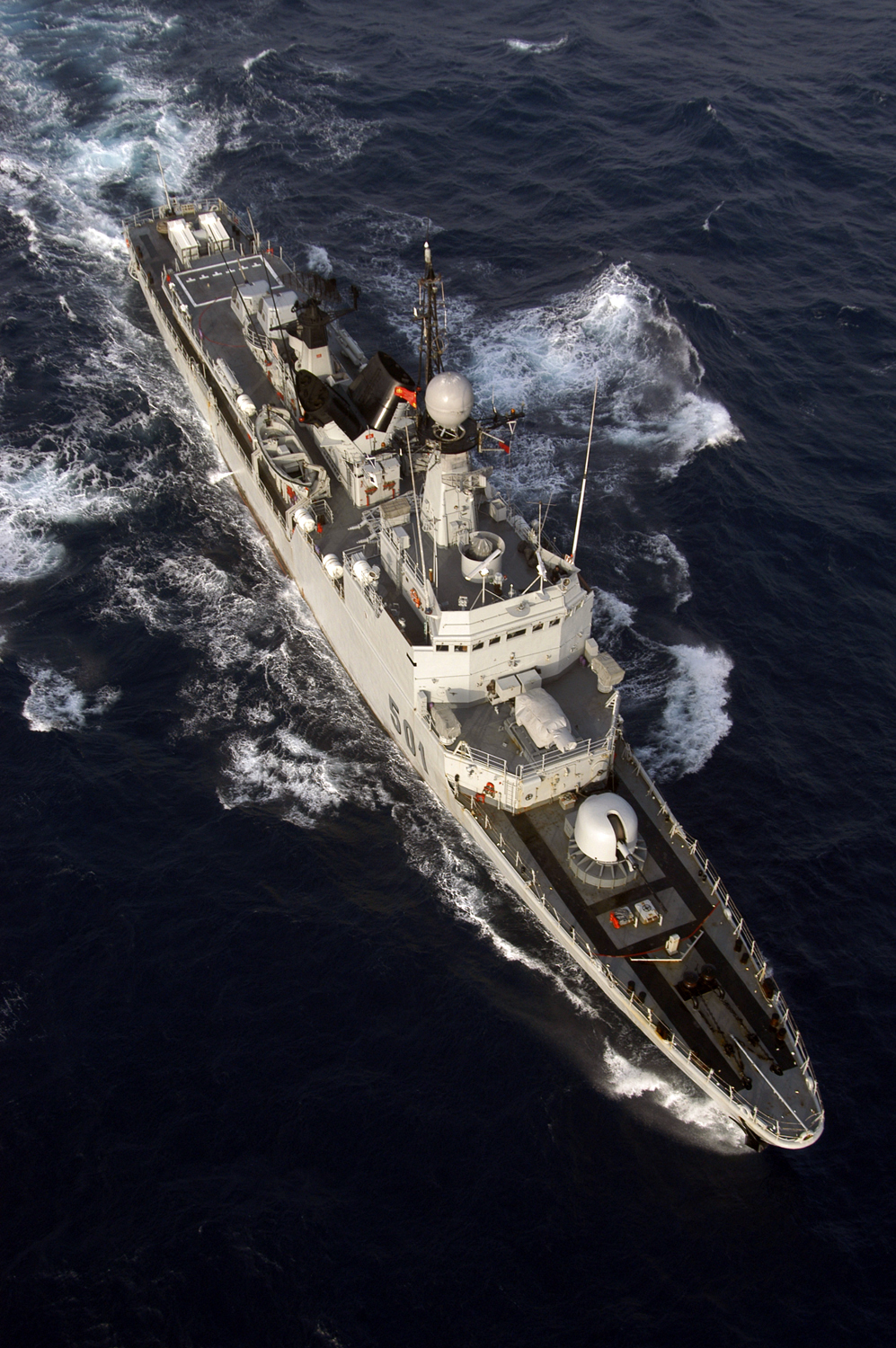 040712-N-0119G-092 Atlantic Ocean (July 12, 2004) - The Moroccan frigate RMNS Lieutenant Colonel Errhamani (F 501) steams through the Atlantic Ocean while participating in Majestic Eagle 2004. Majestic Eagle is a multinational exercise being conducted off the coast of Morocco. The exercise demonstrates the combined force capabilities and quick response times of the participating naval, air, undersea and surface warfare groups. Countries involved in the NATO led exercise include the United Kingdom, Morocco, France, Italy, Portugal, Spain, and Turkey. Truman's participation in Majestic Eagle is part of her scheduled deployment supporting the Navy's new fleet response plan (FRP) Summer Pulse 2004, the simultaneous deployment of seven carrier strike groups (CSGs), demonstrating the ability of the Navy to provide credible combat across the globe, in five theaters with other U.S., allied, and coalition military forces. U.S. Navy photo by Photographer's Mate Airman Rob Gaston (RELEASED)